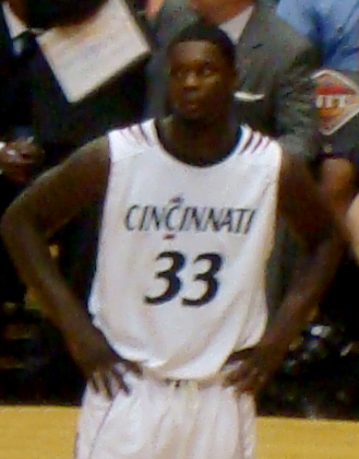 Lance Stephenson of the Cincinnati Bearcats men's basketball team during an NIT game against Dayton.